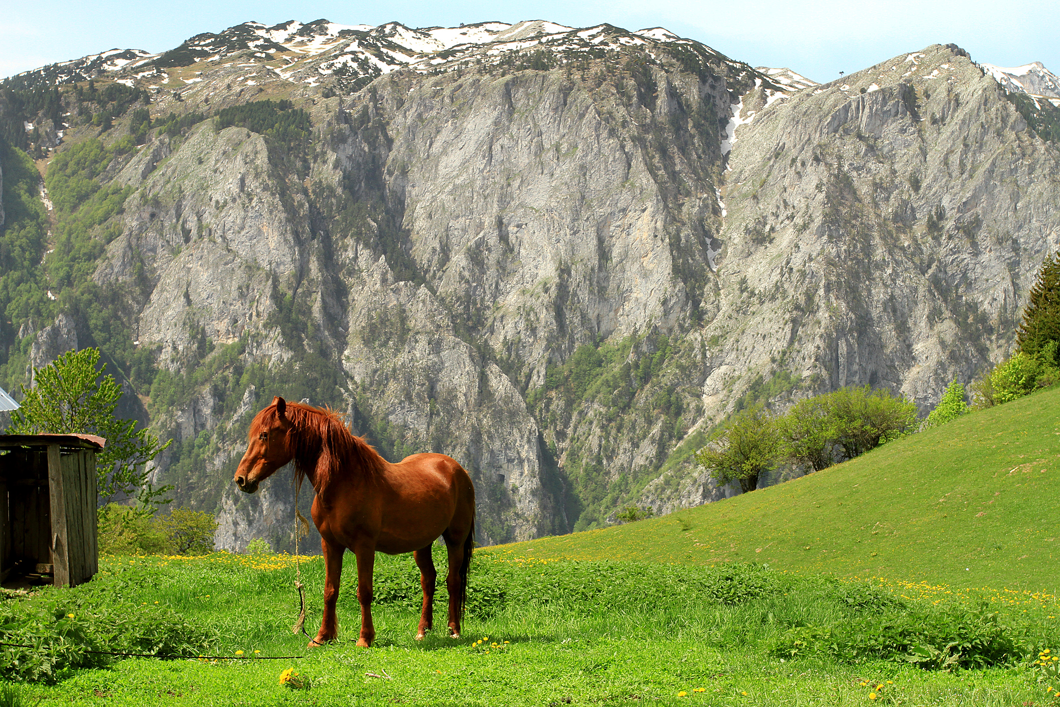 Horse chill in Little Shtypeq